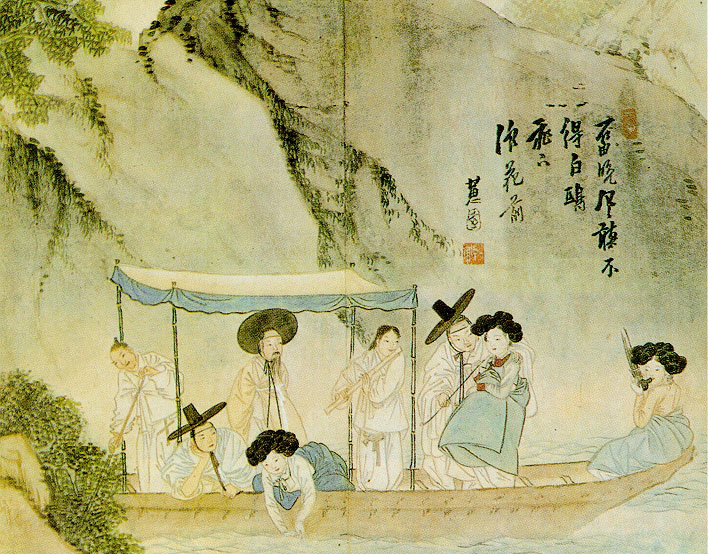 The painting Ju Yu Cheong Gang (주유청강, 舟遊淸江), early 19th century, by Hyewon. Original stored at the Gansong Art Museum, Seoul.